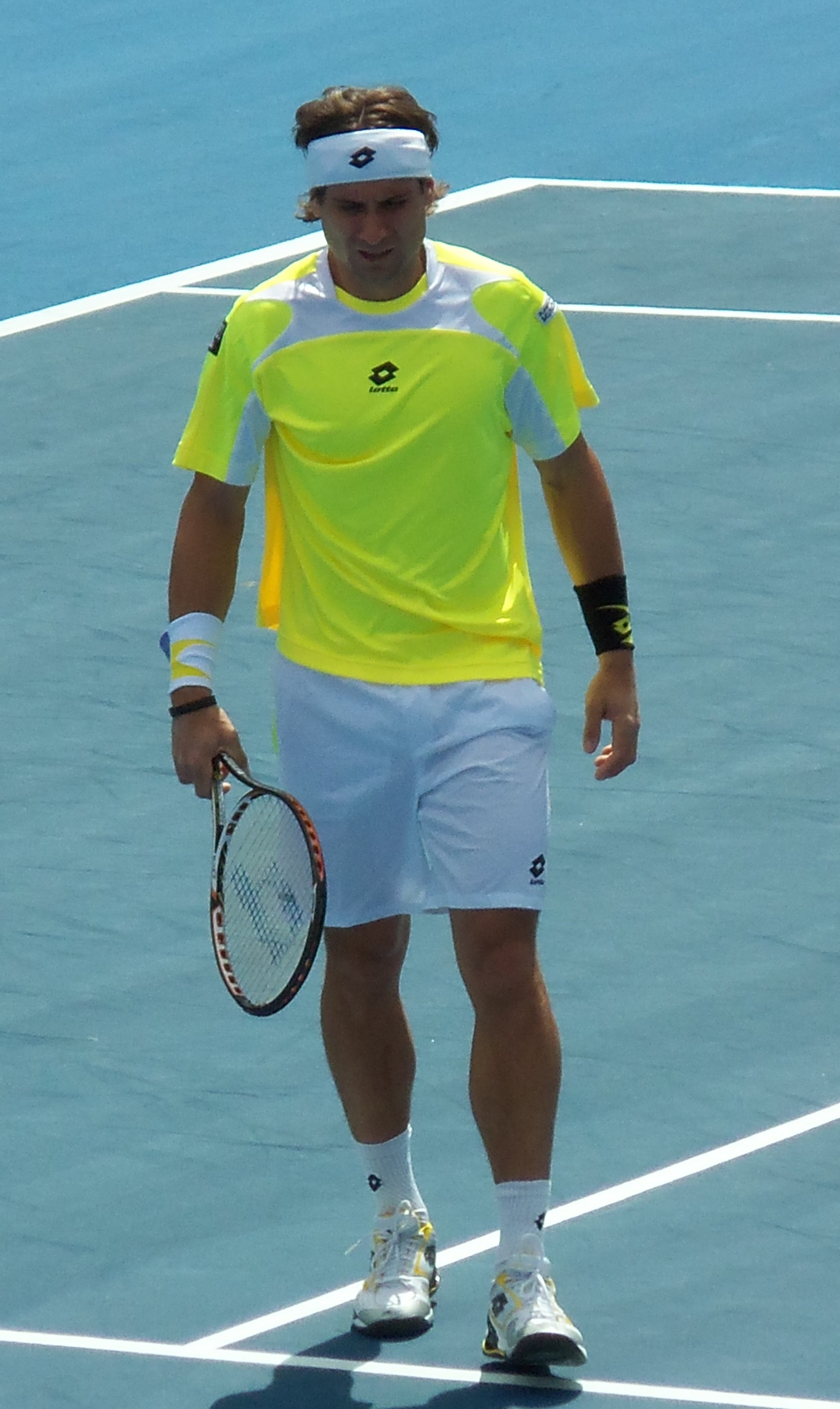 David Ferrer at the Heineken Open 2011